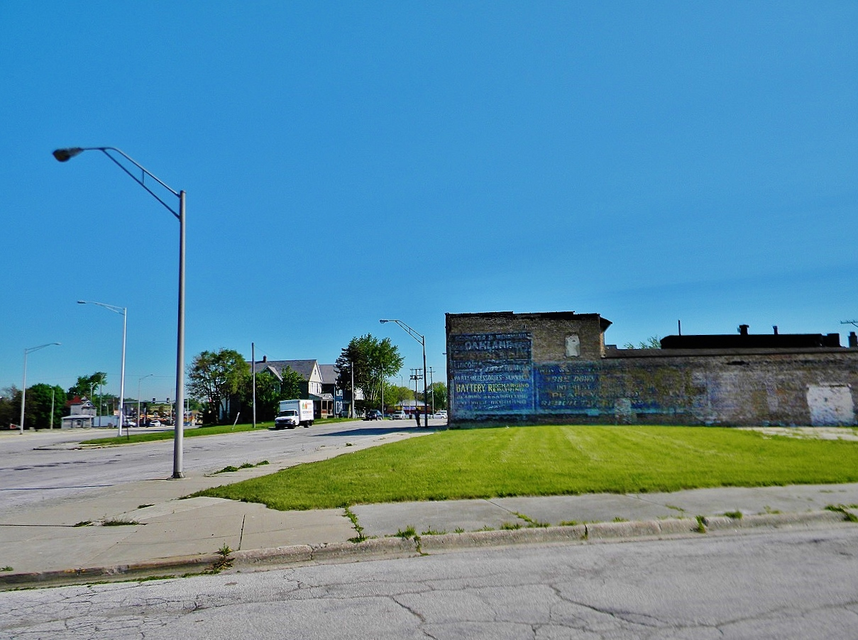 Flat Iron Building Structure has apparently been demolished.